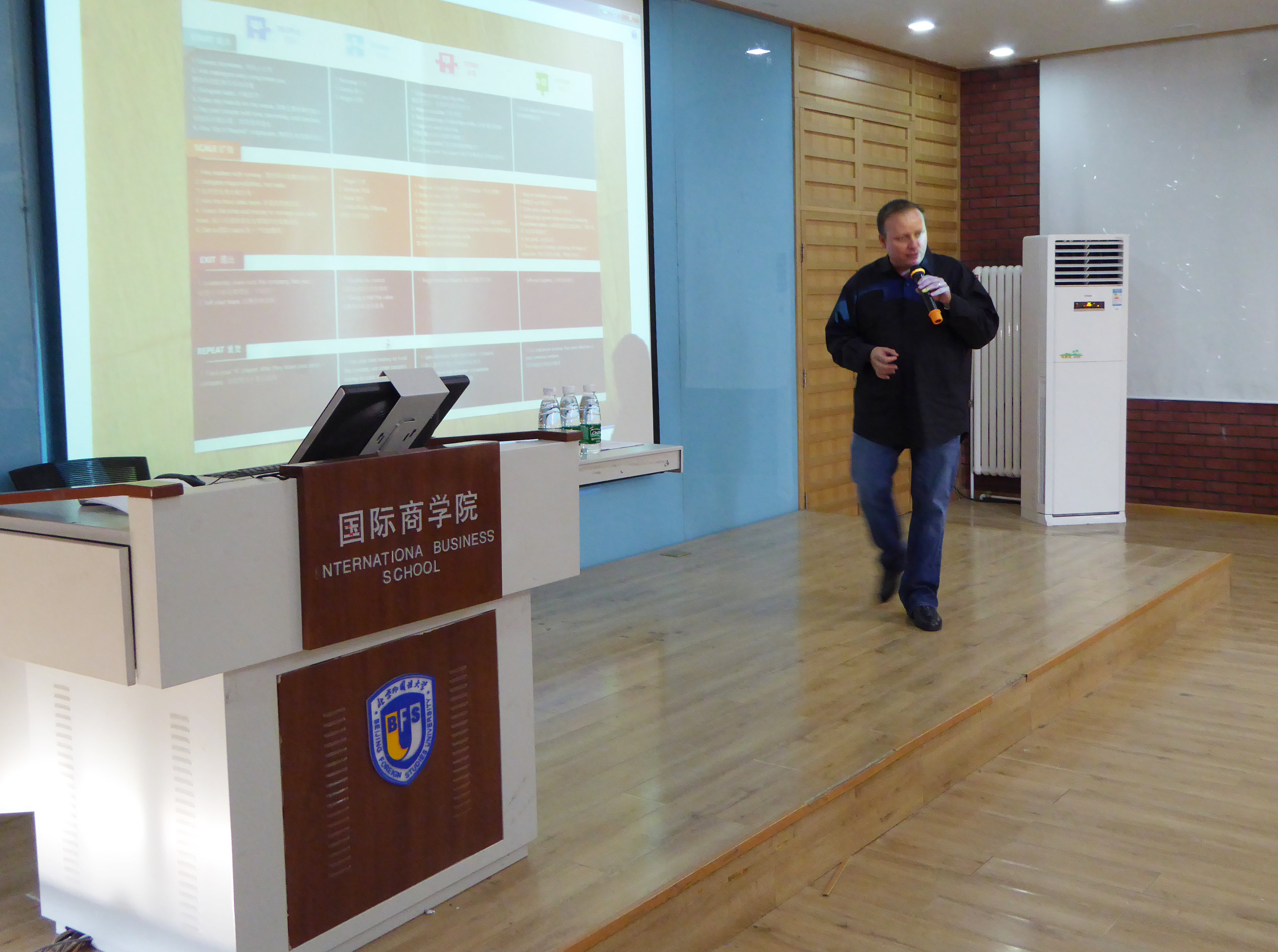 [Colin_Campbell_(entrepreneur)] giving a lecture on entrepreneurship at the [Beijing Foreign Studies University]